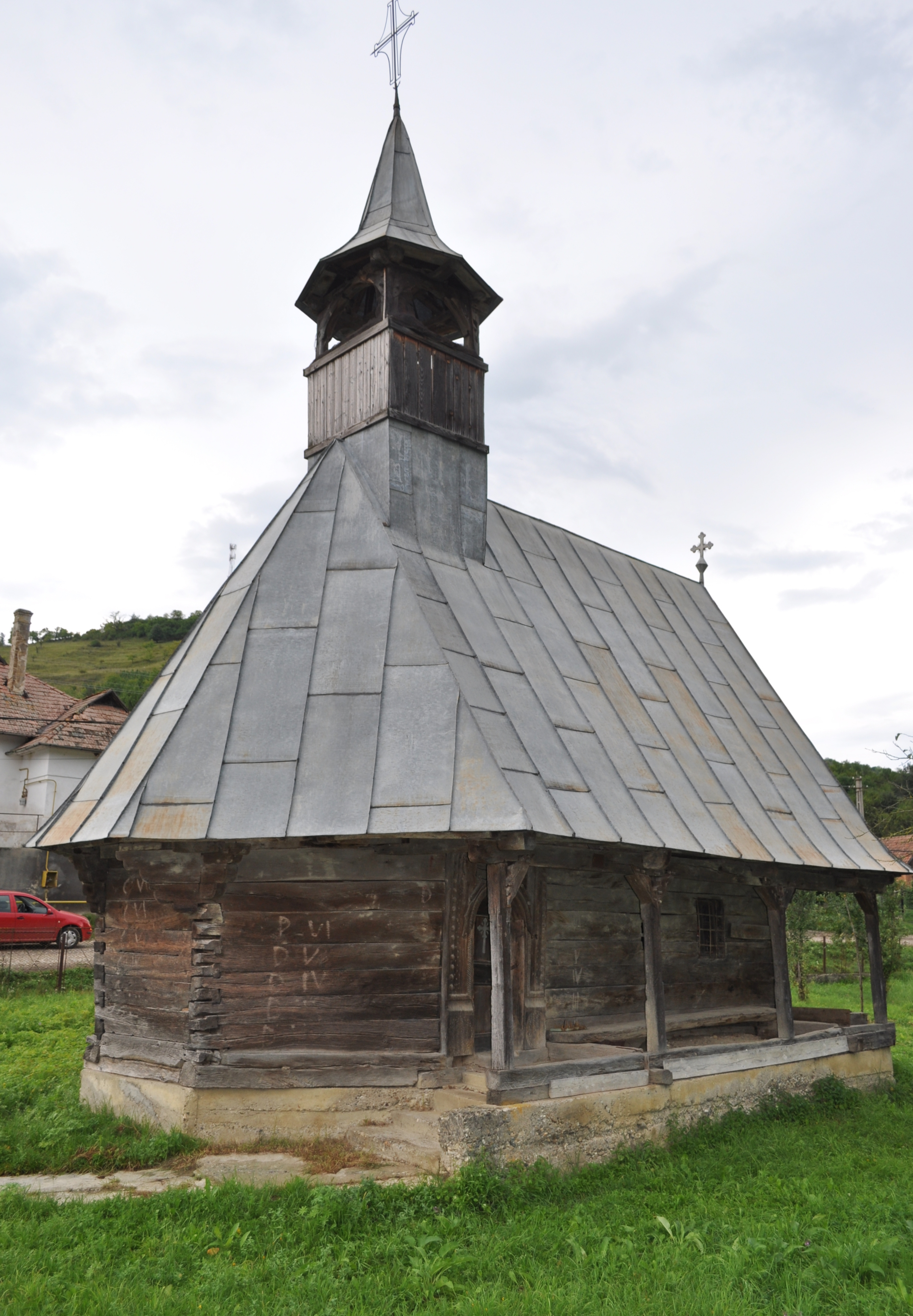 Wooden church in Strugureni, Bistrița-Năsăud countyRomână: Biserica de lemn din Strugureni